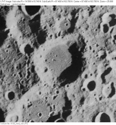 Boole is in the center. To its northwest, 41-km Boole G feeds into the deeply shadowed 23-km Cremona L (top margin). On the south, Boole merges with 75-km Boole H. Several smaller lettered craters named after Boole are visible on the right.